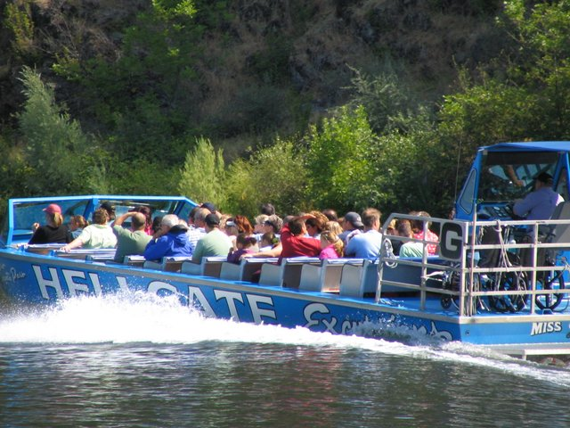 Jetboat tour boat on the Rogue River by Grants Pass, Oregon. Source Image taken by M. D. Vaden of Oregon, July, 2005.